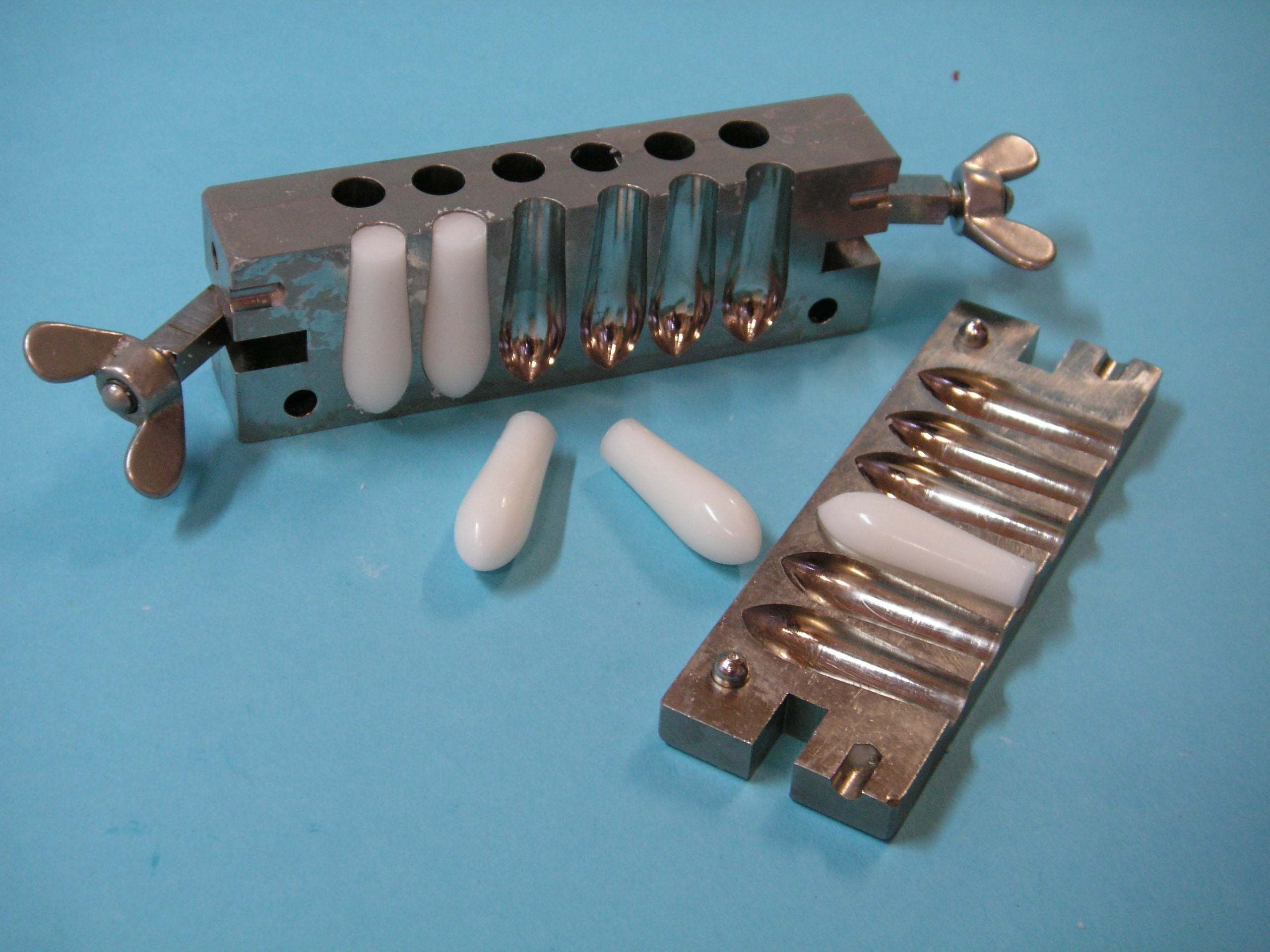 Suppository casting mould. Used by pharmacists to produce suppositories.